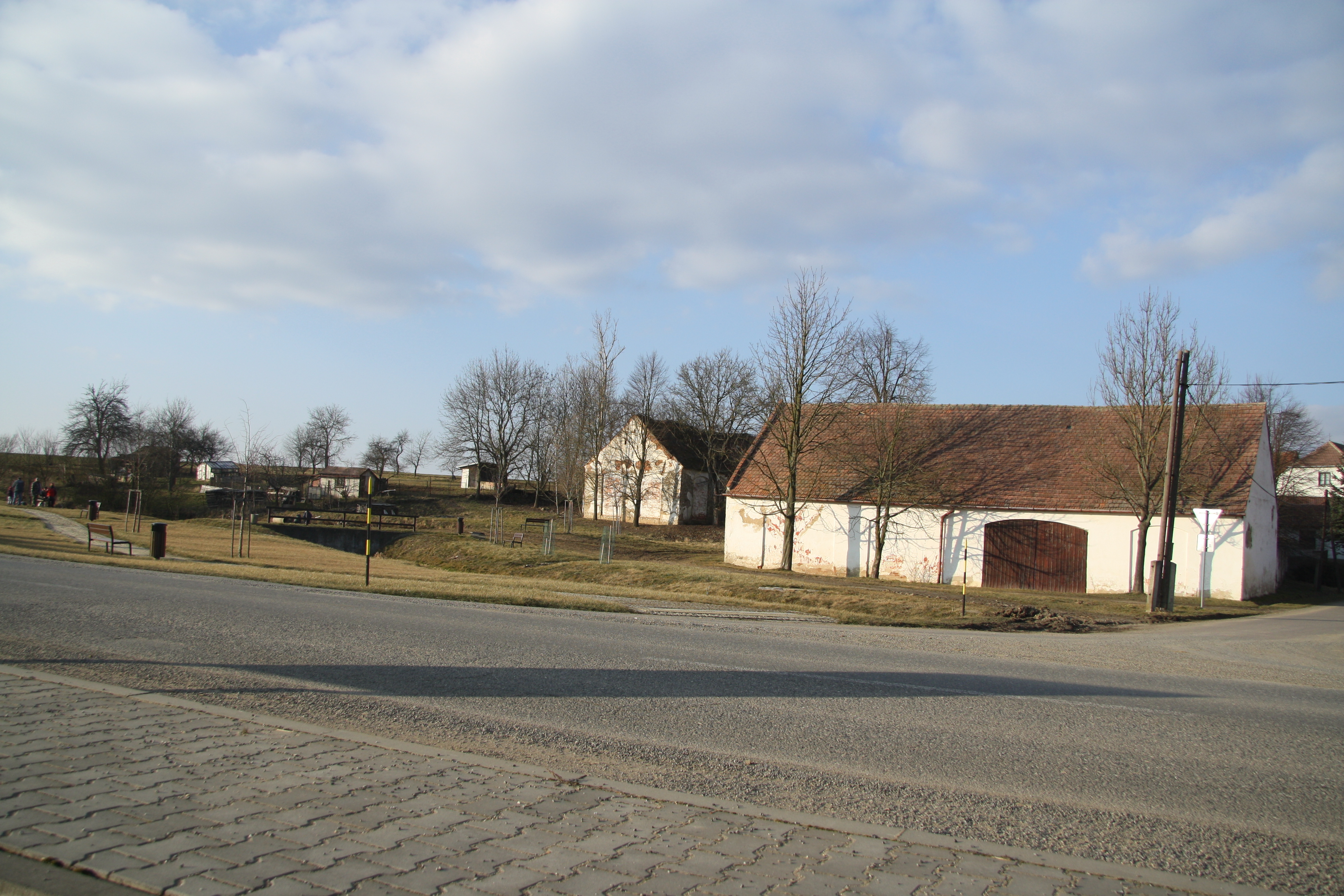 Center of Slavíkovice, Třebíč District.